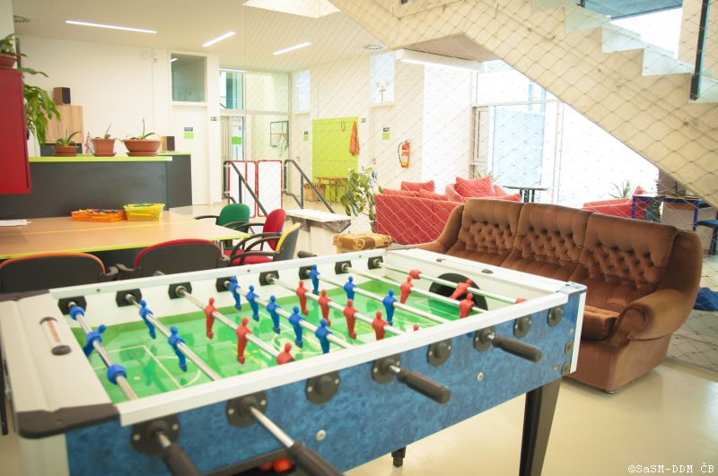 Table football table in clubroom of Salesian youth centre in the Community center Máj in České Budějovice (Czech Republic).